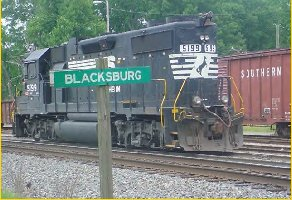 The railroad played a major role in the history of Blacksburg. Author: Nathan White Source URL: The railroad played a major role in the history of Blacksburg. Author: Nathan White Source URL